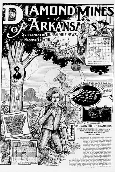 A supplement to the Nashville News newspaper (Nashville, Arkansas, USA), promoting diamond mining. Diamonds were found in nearby Murfreesboro in 1906.